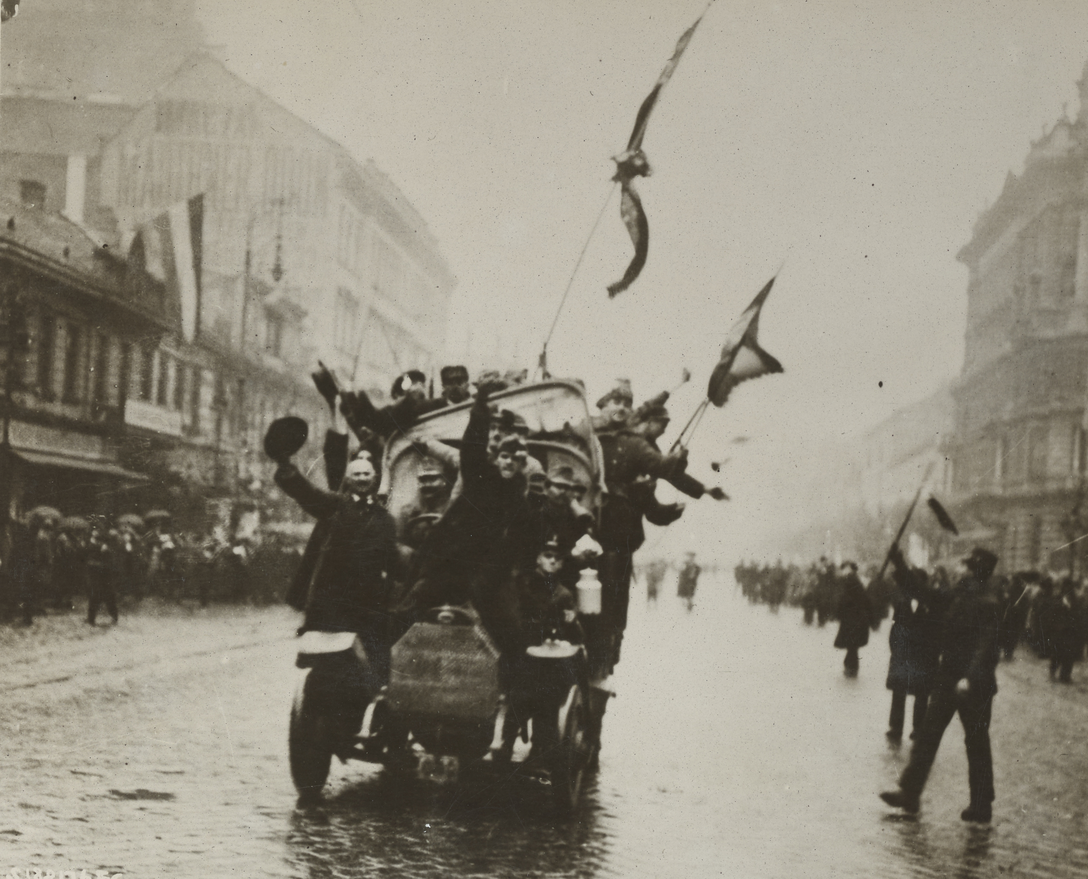 Scope and content: Date Taken: 3/5/1919 Photographer: Underwood and Underwood